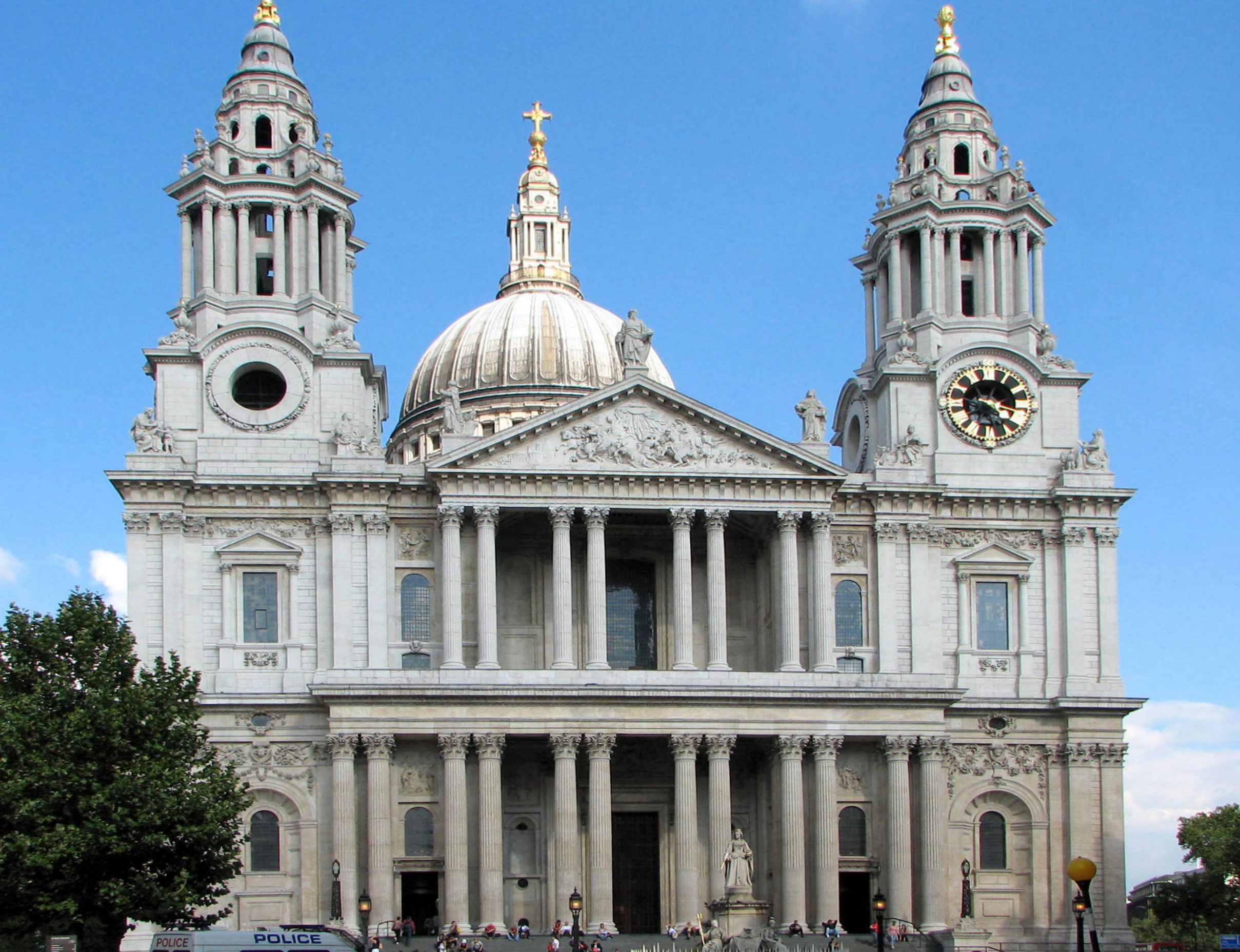 Great West Door of the Saint-Paul's Cathedral, London, England